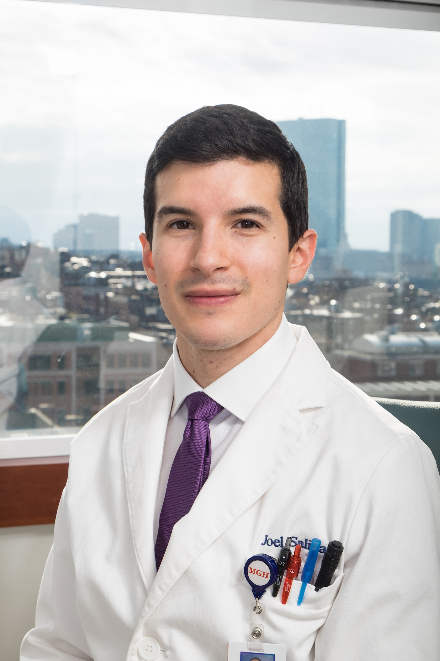 Photograph of Dr. Joel Salinas at Massachusetts General Hospital in 2015.